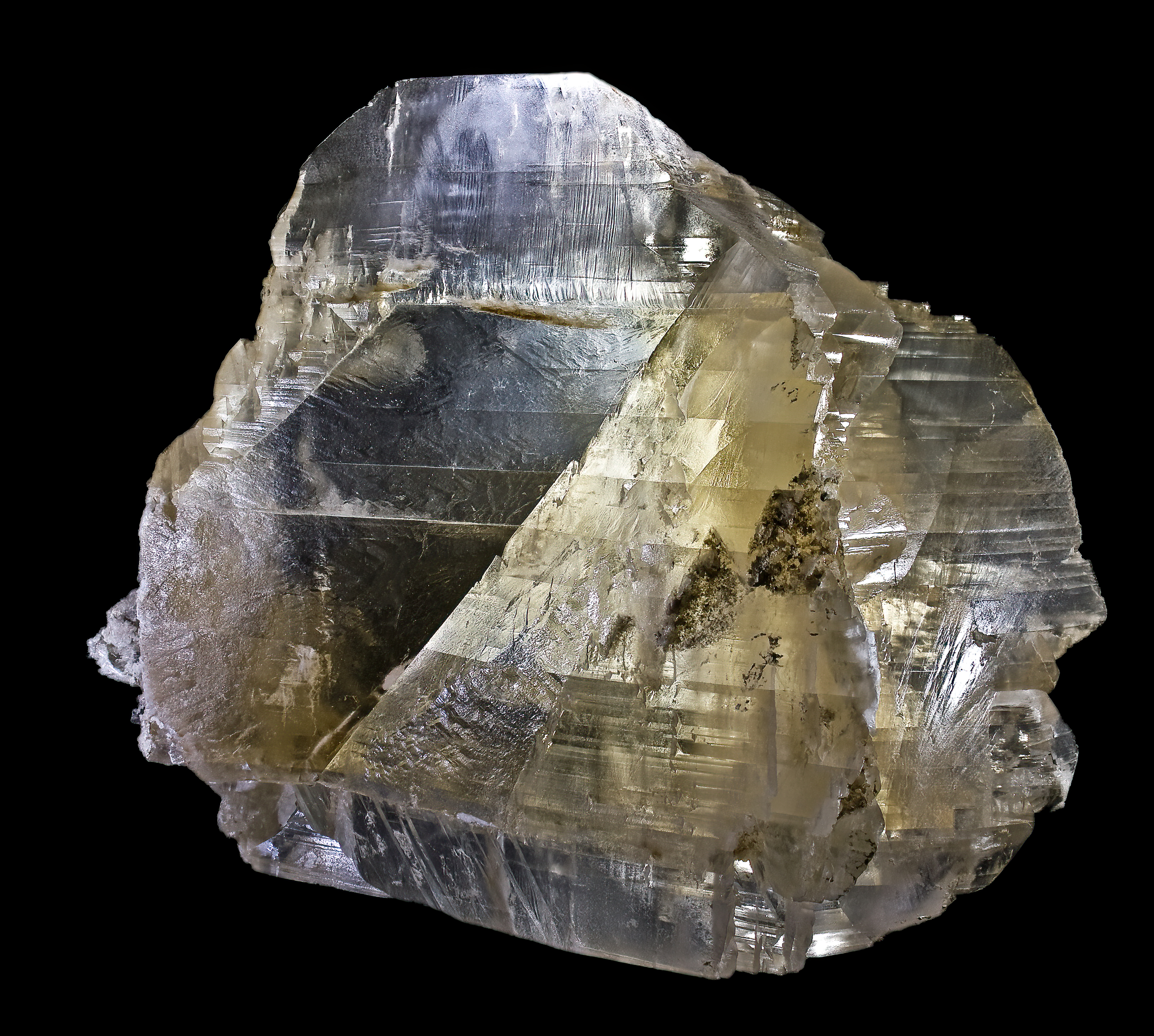 Gypsum Locality : Caresse-Cassaber, Pyrénées-Atlantiques - France Size 27x22cm